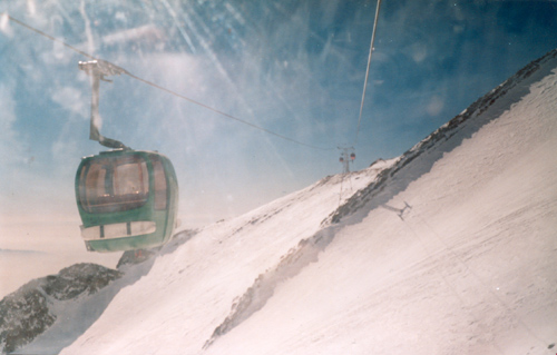 The gondola lift in the Tochal skiing resort, Tehran, at 3900 m, the 5th highest resort in the world.